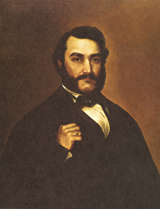 William Heath Davis (1822-1909), early settler of San Diego California. Noted author, associated with Lieutenant Gray in abortive effort to found new town, frequently called Davis' Folly.